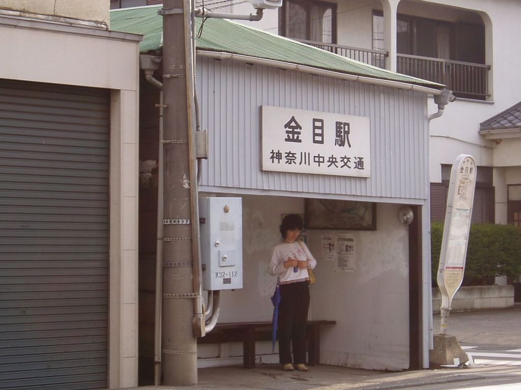 Kanagawa Chuo Kotsu Kaname Sta.